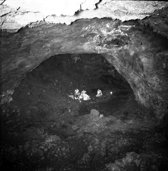 Falemauga Caves, an archaeological site in Samoa, photo showing large chamber with a small group of people inside.